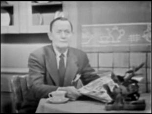 A screenshot of a scene from Rocky King, Inside Detective, which was published in the United States before 1963 without a copyright notice, and was never registed for copyright.